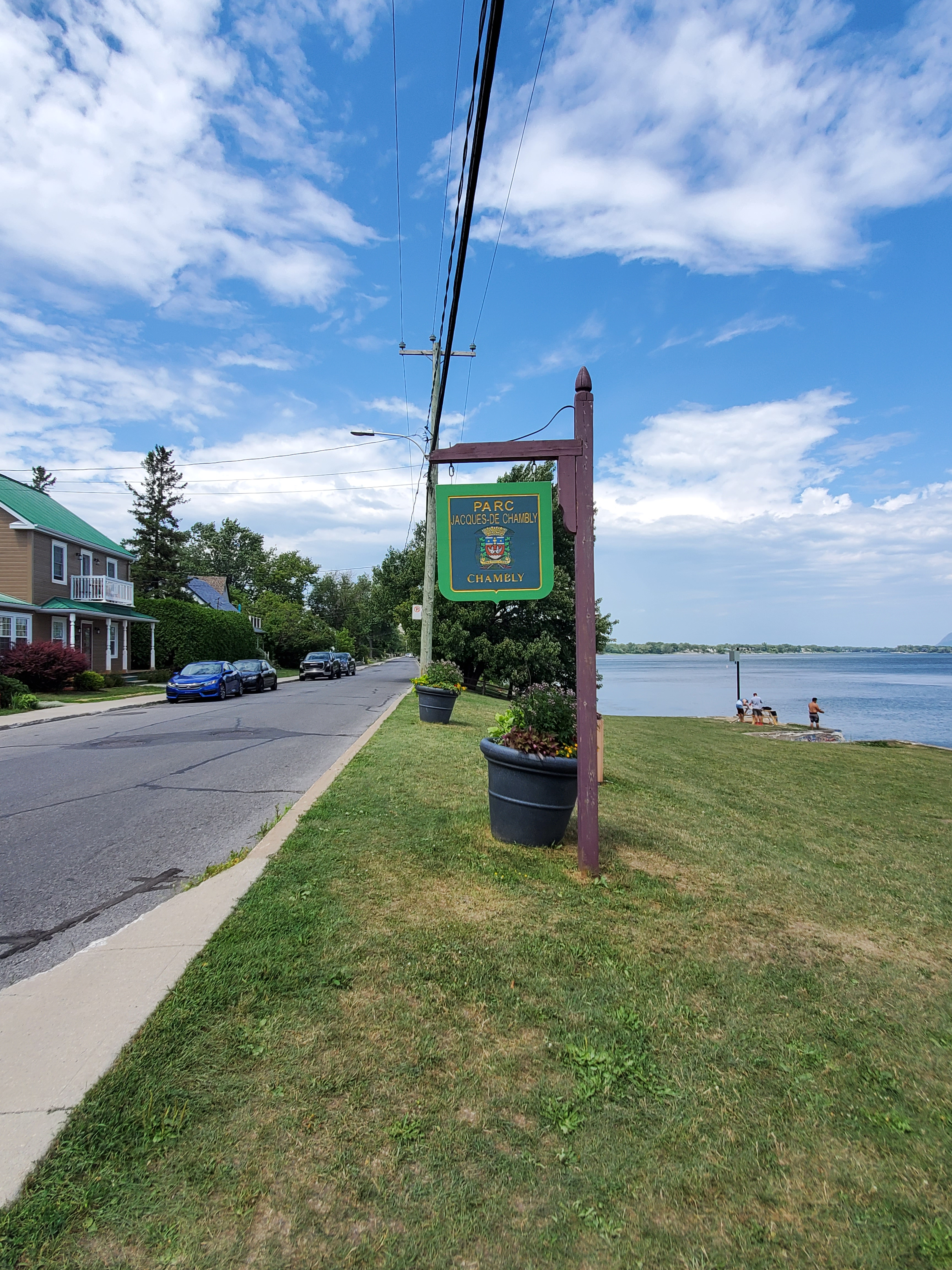 Jacques-De Chambly Park is located between the shore of the Chambly Basin and Martel Street, in Chambly